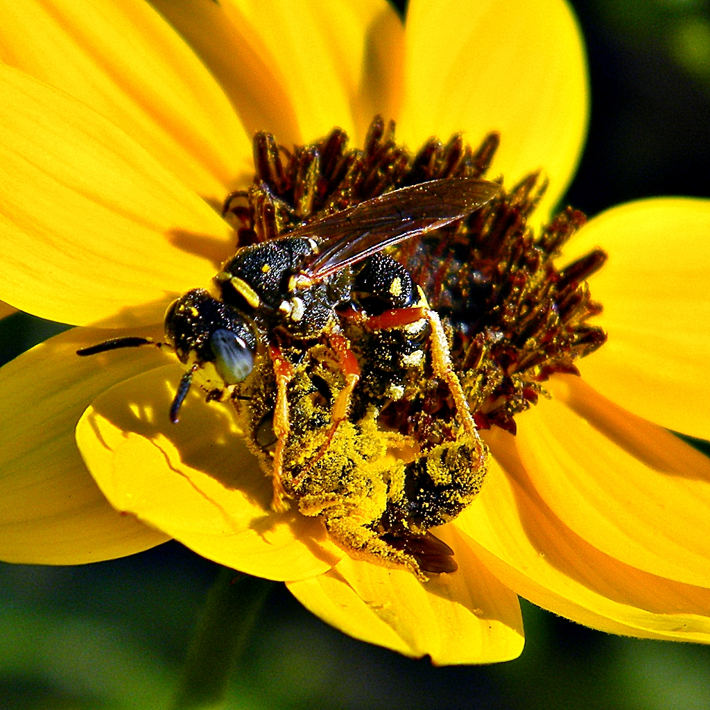 While I was photographing happy pollen-gathering bees, this Beewolf (Philanthus sp.) came screaming in from above, grabbing a smaller bee, wrestling and stinging it until it was paralyzed. The wasp then positioned the bee aerodynamically and flew away with it :-( Frenchman's Forest Natural Area, Palm Beach County, Florida